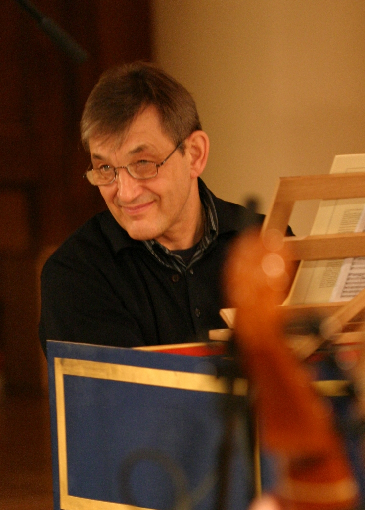 Trevor Pinnock directs the European Brandenburg Ensemble in their recording of Bach's Brandenburg Concertos, Sheffield, December 2006.